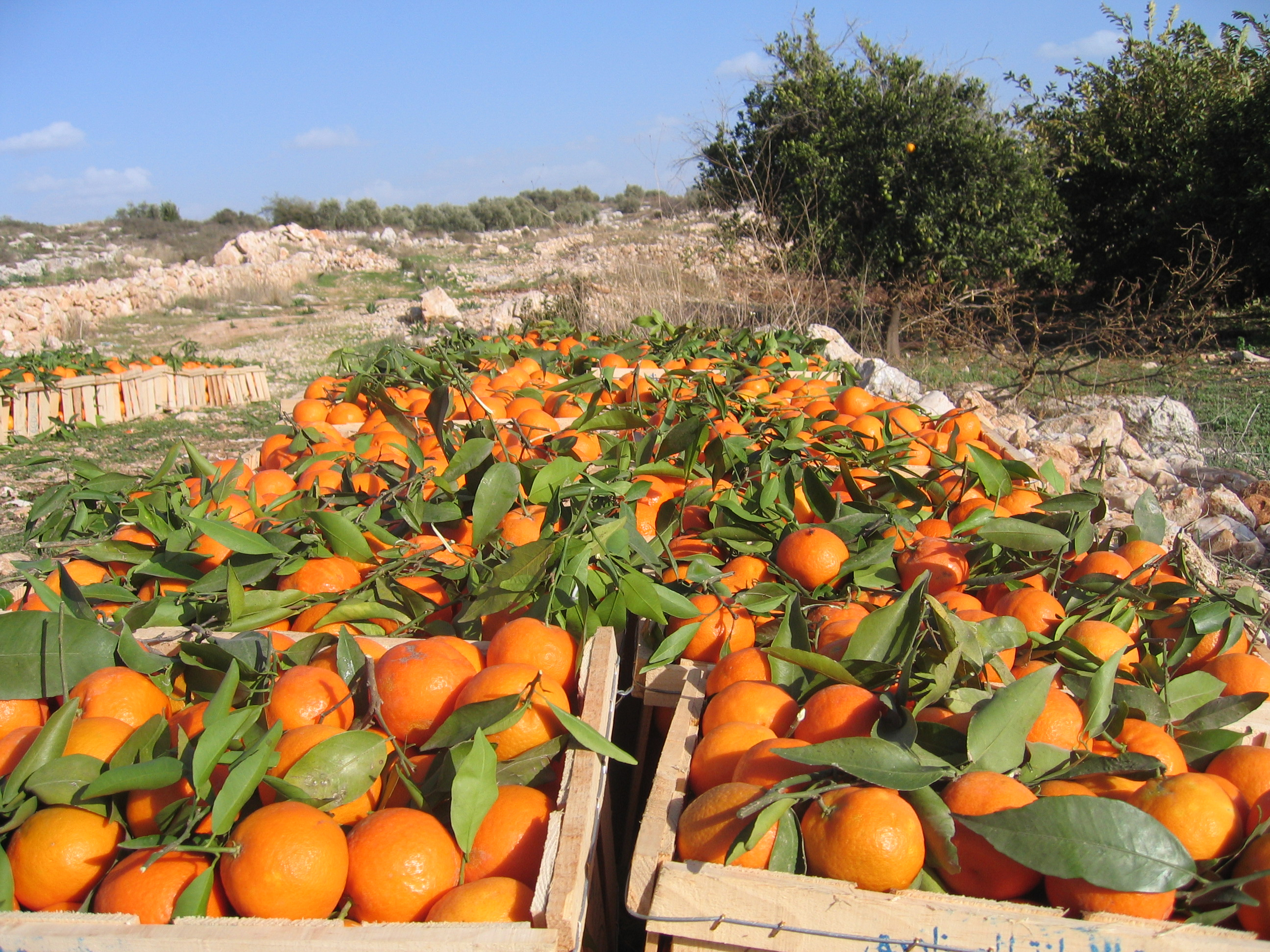 Collected orange crop in Kufr Jammal